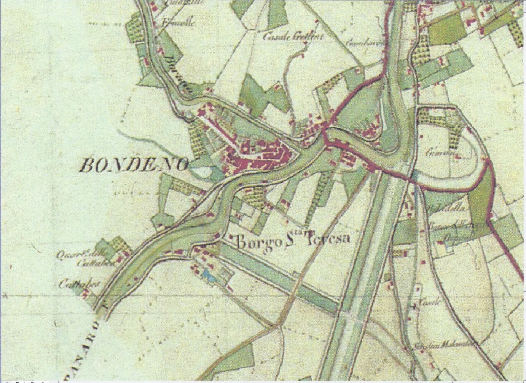 an interesting map for the napoleonical idea of the Cavo.